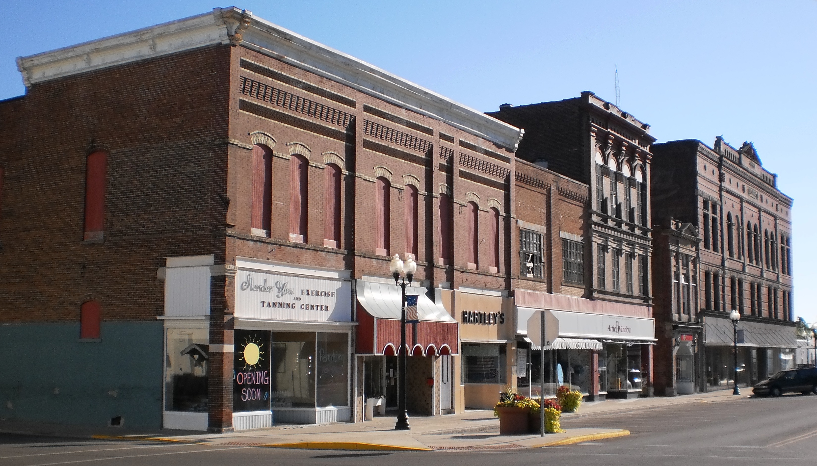 Gable, Sage, unnamed, Rosenbush, and Weiler's buildings (shown left to right) are part of the Hartford City Courthouse Square Historic District, and were built during the Gas Boom era between 1890 and 1910. View is of the north side of the courthouse square. Location is Hartford City, Indiana, USA.